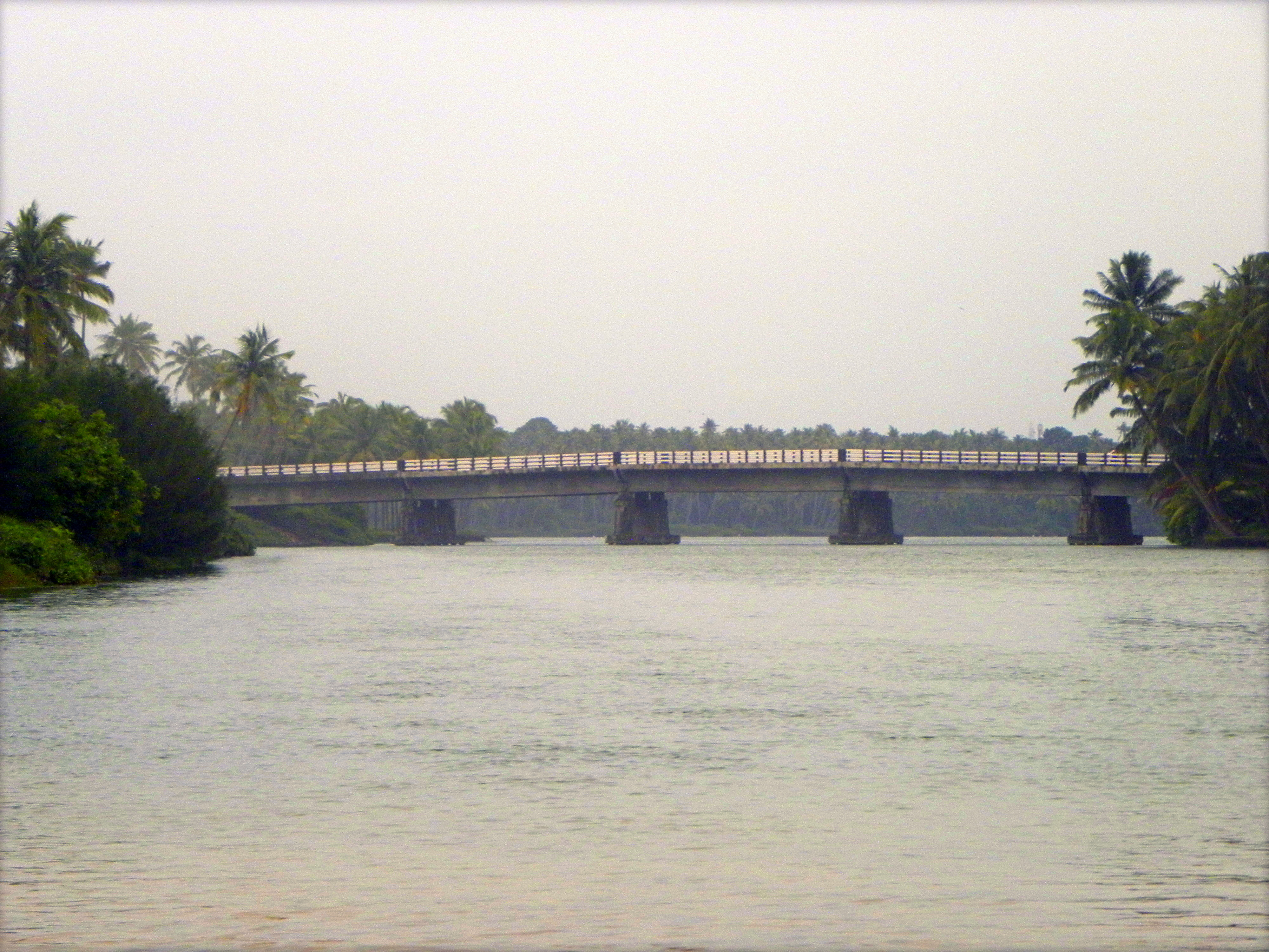 Thekkumbhagam bridge is separating Paravur with Edava Panchayath & Trivandrum District. This bridge is the official and Government approved border of Paravur Municipality.